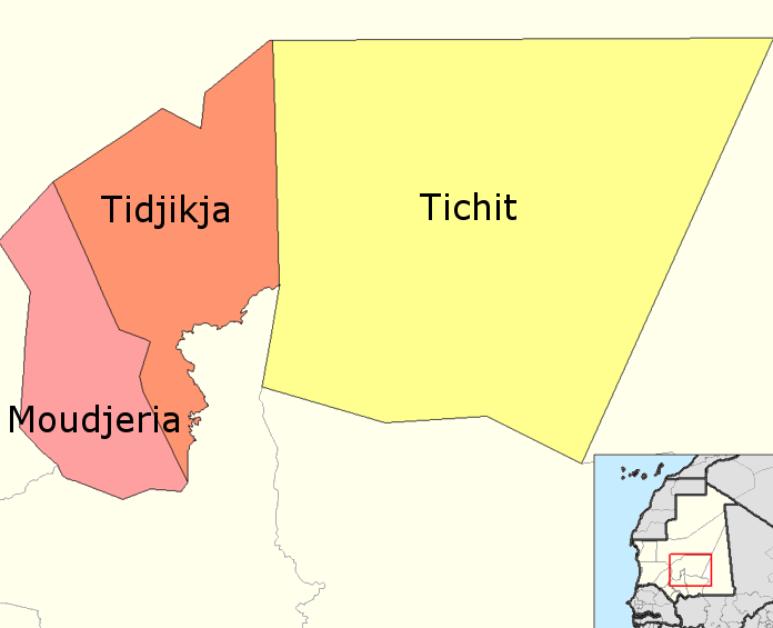 Using GIMP, I updated User:Rarelibra's original map (Image:Tagant_departments.png) w/some bigger department labels. - User:McTrixie